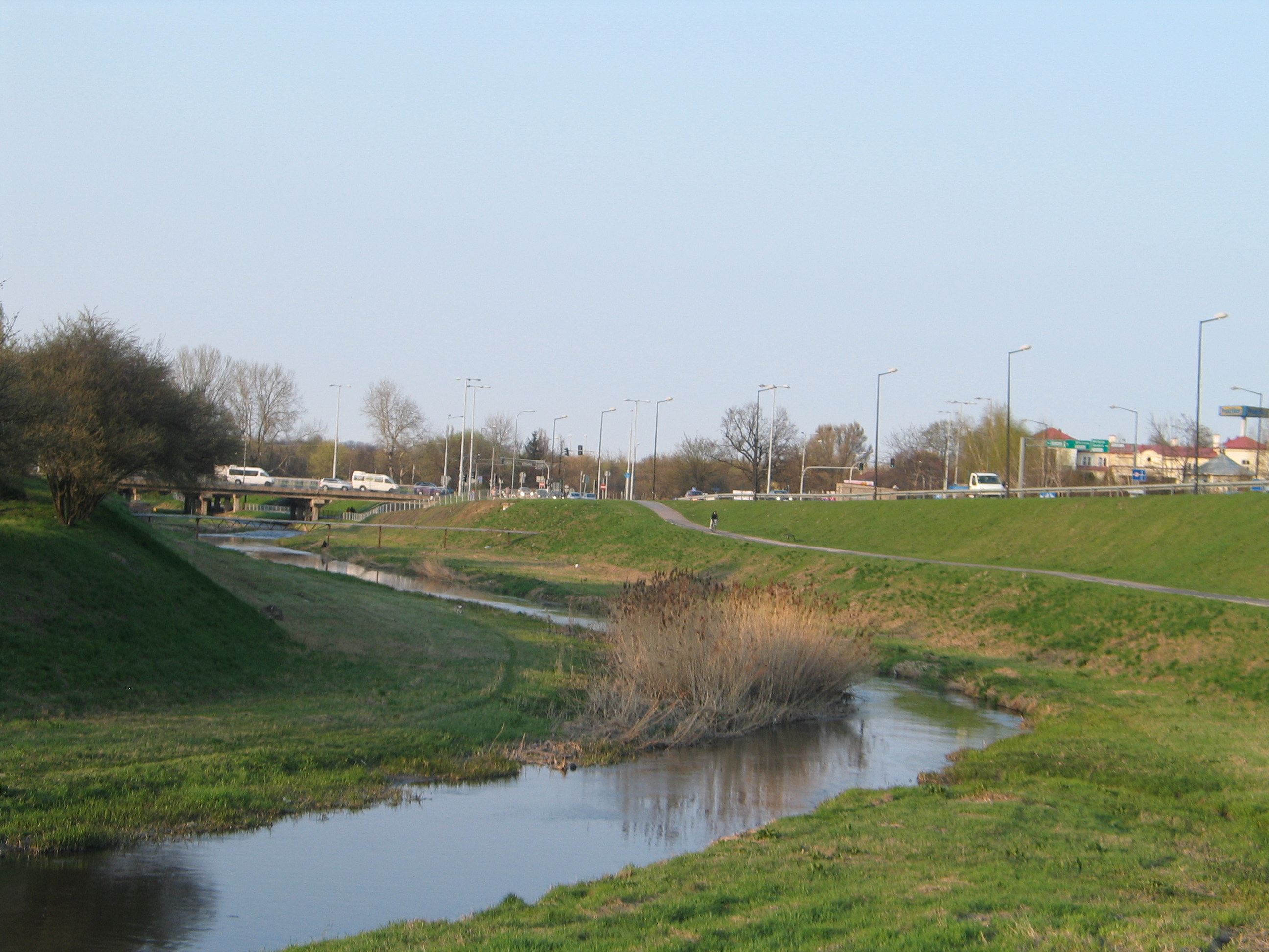 View from Aleja Tysiąclecia towards Ulica Mełgiewska